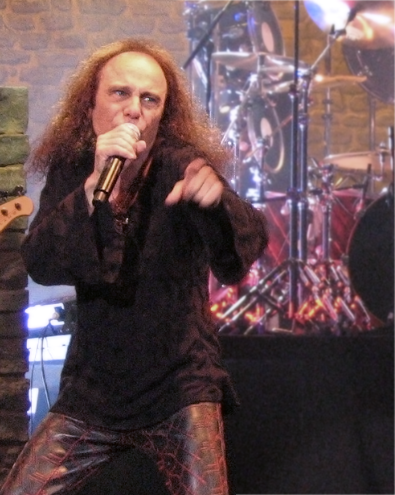 A cropped and edited version of Maross' image. The image shows Ronnie James Dio from Heaven and Hell during a concert in Katowice Spodek 20 June 2007.